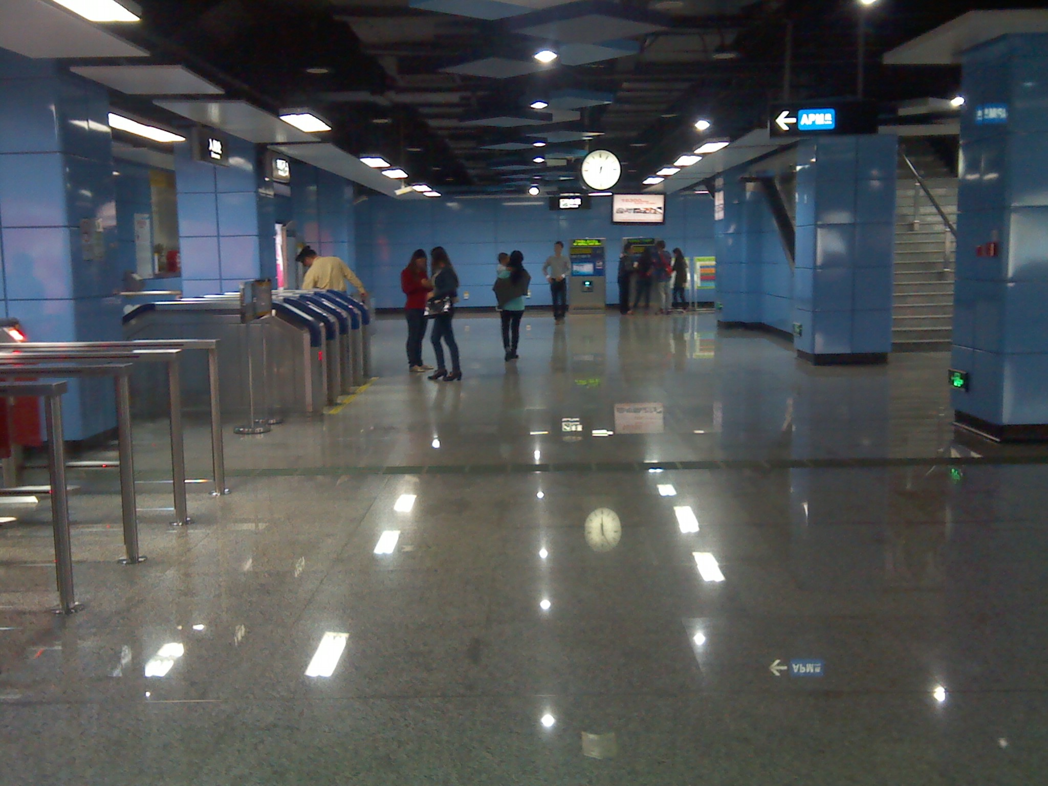 广州地铁海心沙站站厅